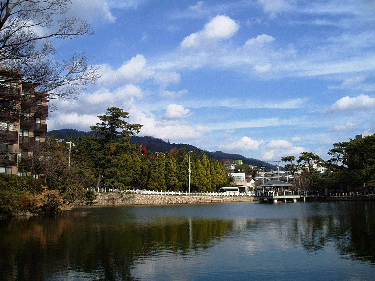 Fukada Pond Park, located in Higashinada-ku, Kobe, Hyogo, Japan.